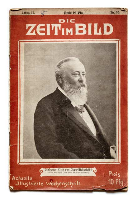 Cover of the German magazine Die Zeit im Bild - Actuelle Illustrierte Wochenzeitschrift